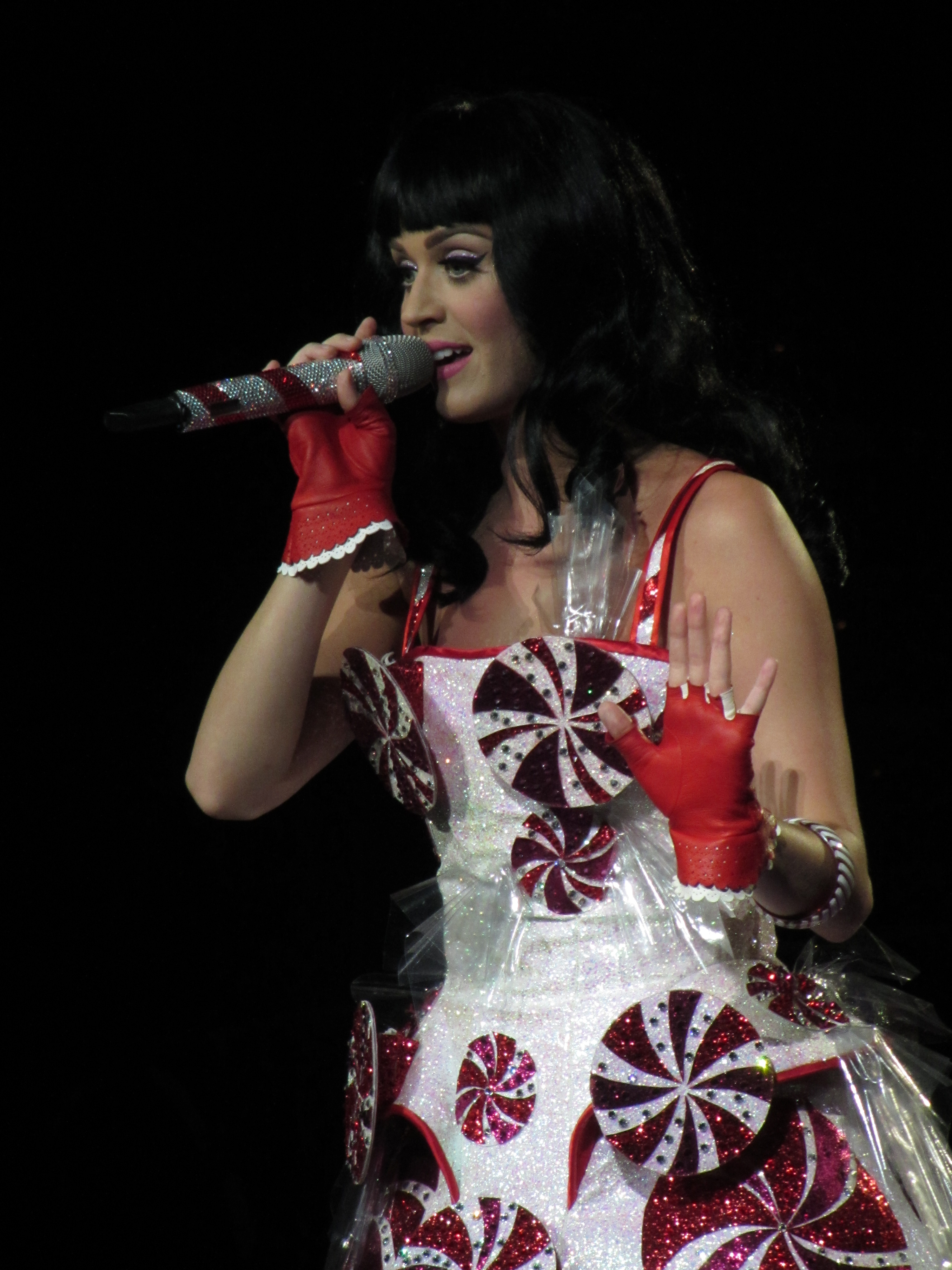 Katy Perry California Dreams Tour, on June 23, 2011